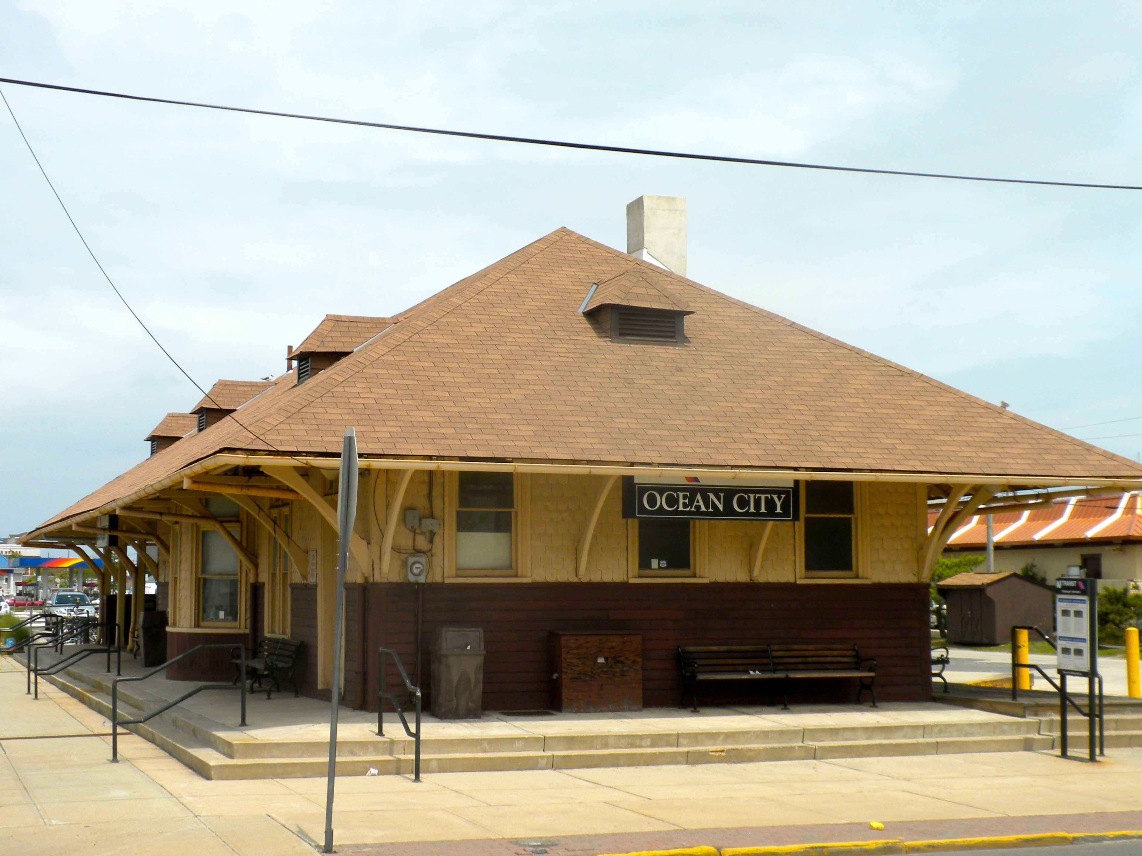 Ocean City Tenth Street Station on the NRHP since June 22, 1984. Between 9th and 10th Sts. in Ocean City, NJ. Used as a bus station now, was a railroad station.